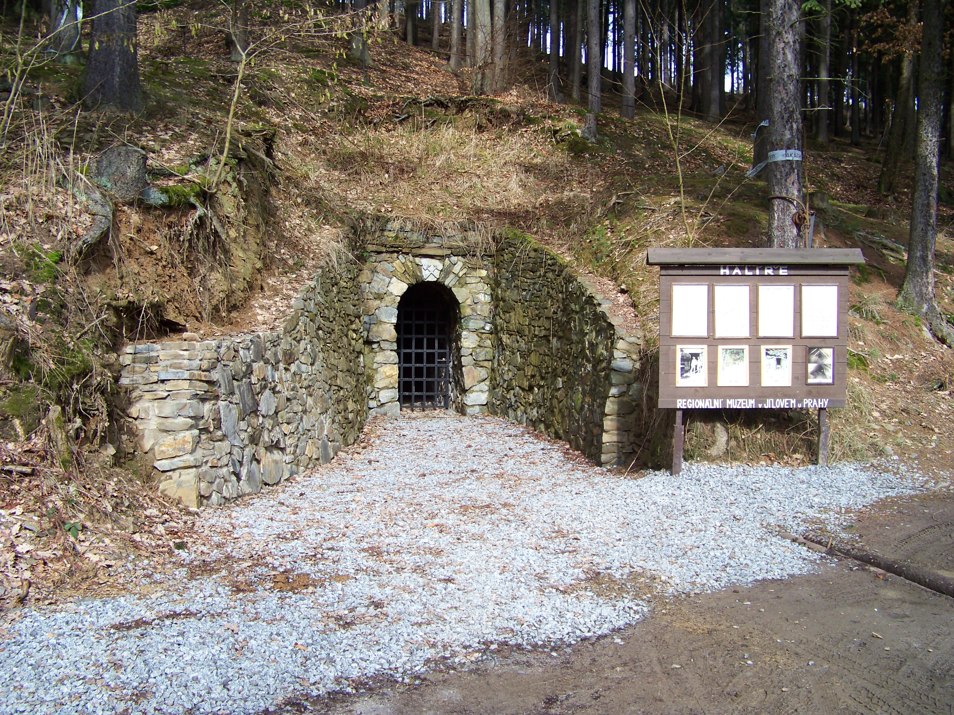 Halíře Mining Gallery. Pohoří, the Czech Republic.